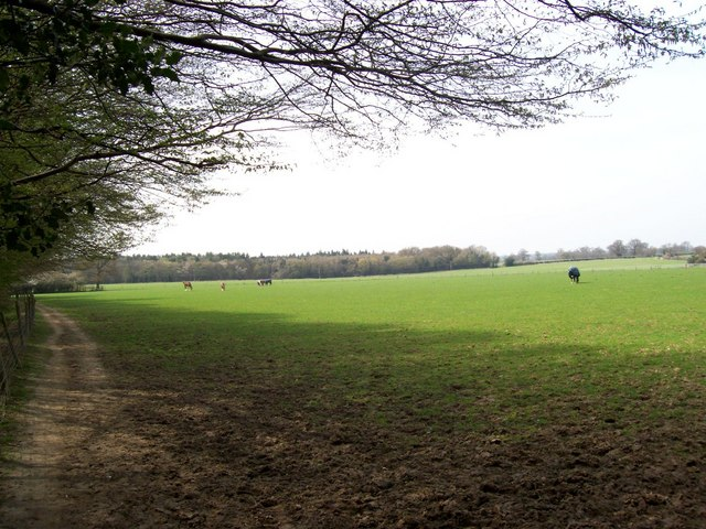 Near Bibbsworth Hall Farm. Looking NW-ish, on the footpath between Gustard Wood and Ayot St Lawrence.